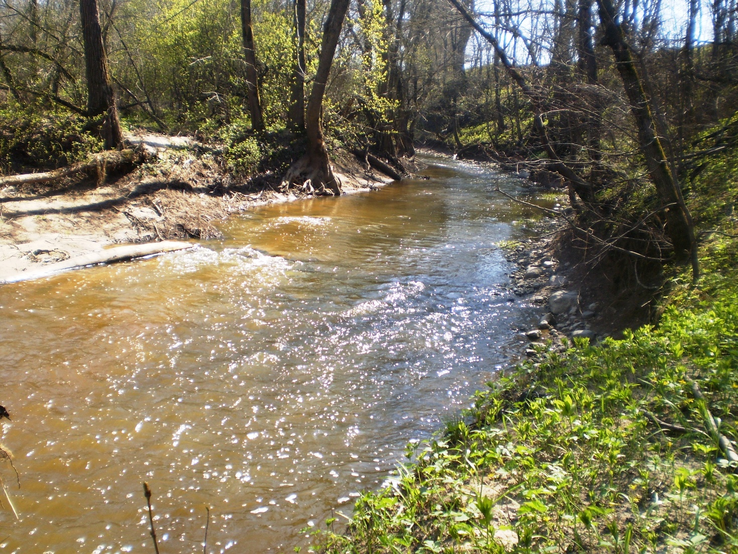 Lankesa river near Užkapiai, Kėdainiai dst., Lithuania